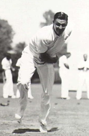 CAIRO, EGYPT. 1941-10-02. AN ACTION PICTURE OF CHEETHAM, A BOWLER WITH THE 1941 A.I.F. CRICKET TEAM, TAKEN DURING PRACTICE AT THE GEZIRA SPORTING CLUB'S GROUNDS